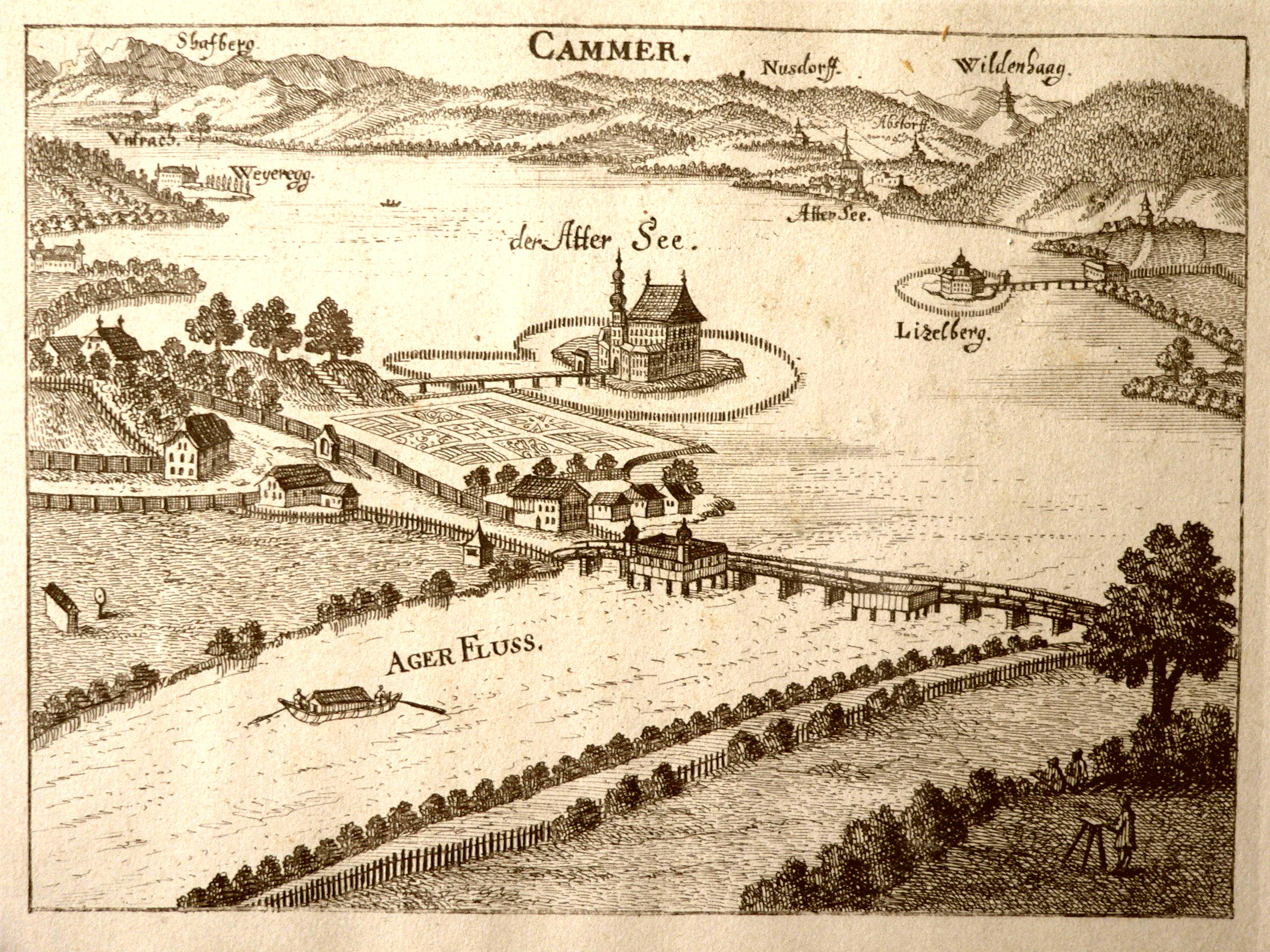 Attersee, Upper Austria. View from north, castles on islands are Kammer and Litzlberg. Engraving